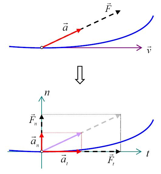 Tangential and normal components of acceleration and force